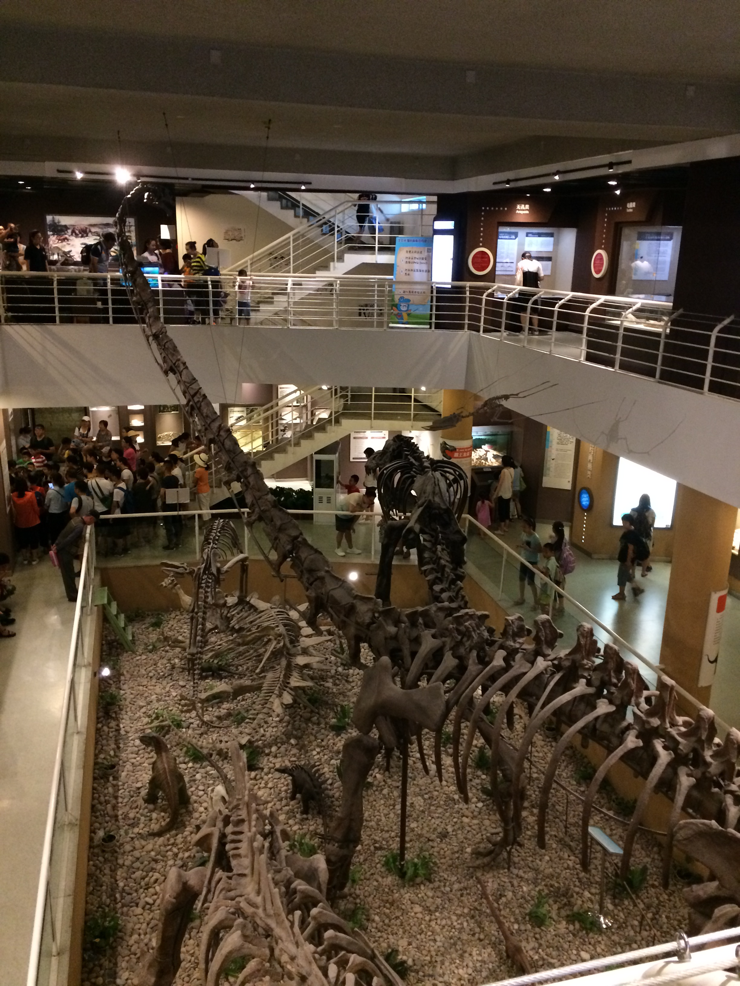 View of first floor of Paleozoological Museum of China from second floor